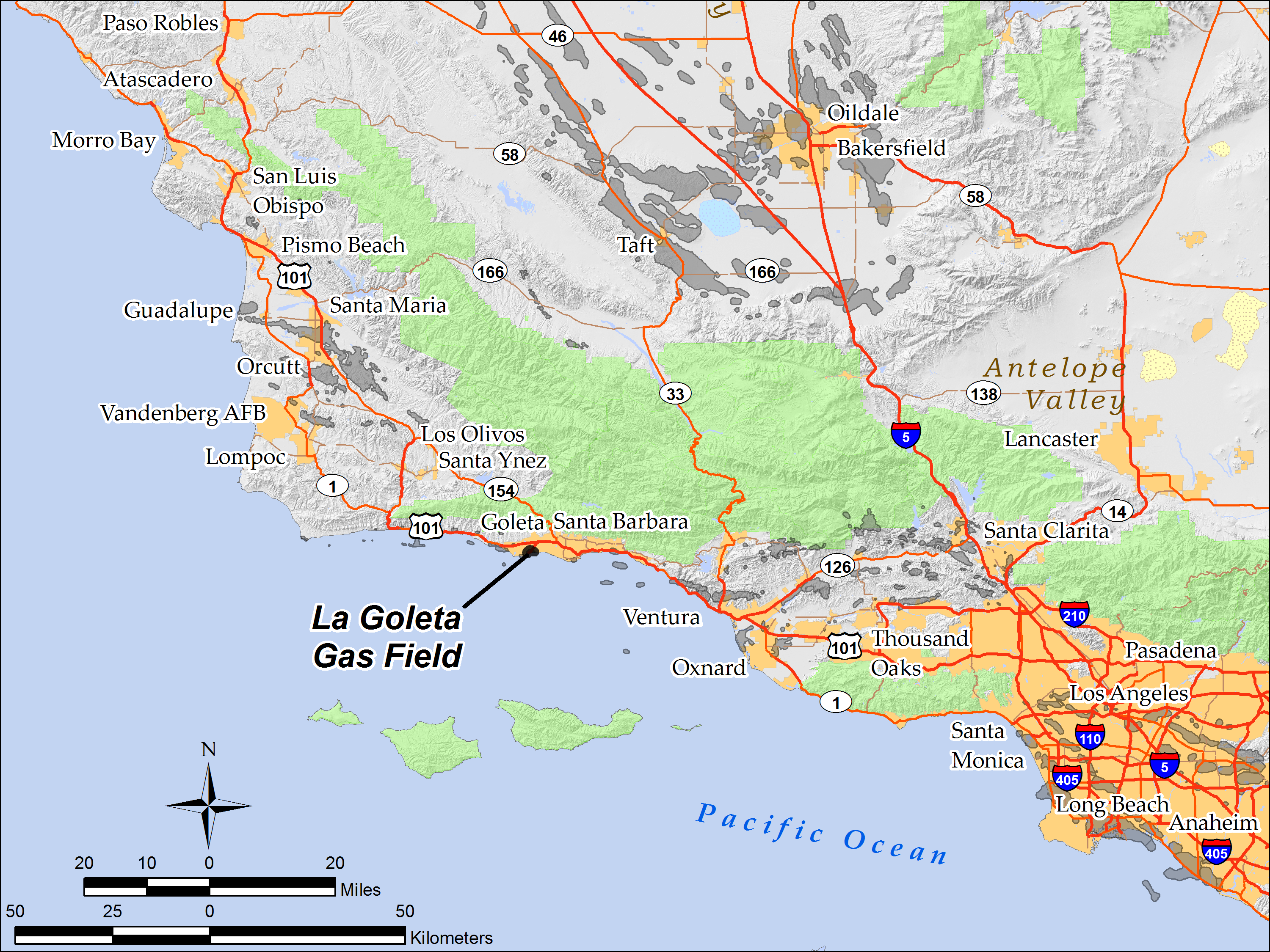 La Goleta Gas Field location within southern California. Created by self using public domain data (USGS, federal lands layers, US Census, etc.) in ArcGIS 10.2. cc-by-sa 3.0/GFDL.